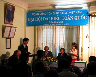 The election of the Spiritual Assembly of the Baha'is of Vietnam takes place at the 2nd annual Baha'i National Convention in Danang, May 2009.